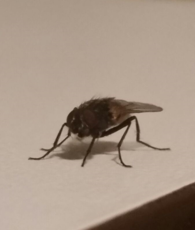 domestic fly